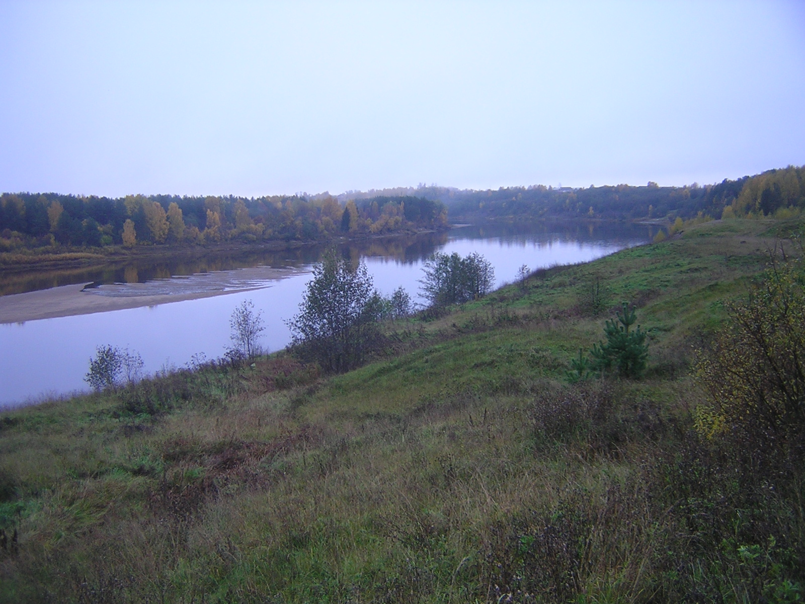 The Unzha River near Makariev. Kostroma District, Russia.